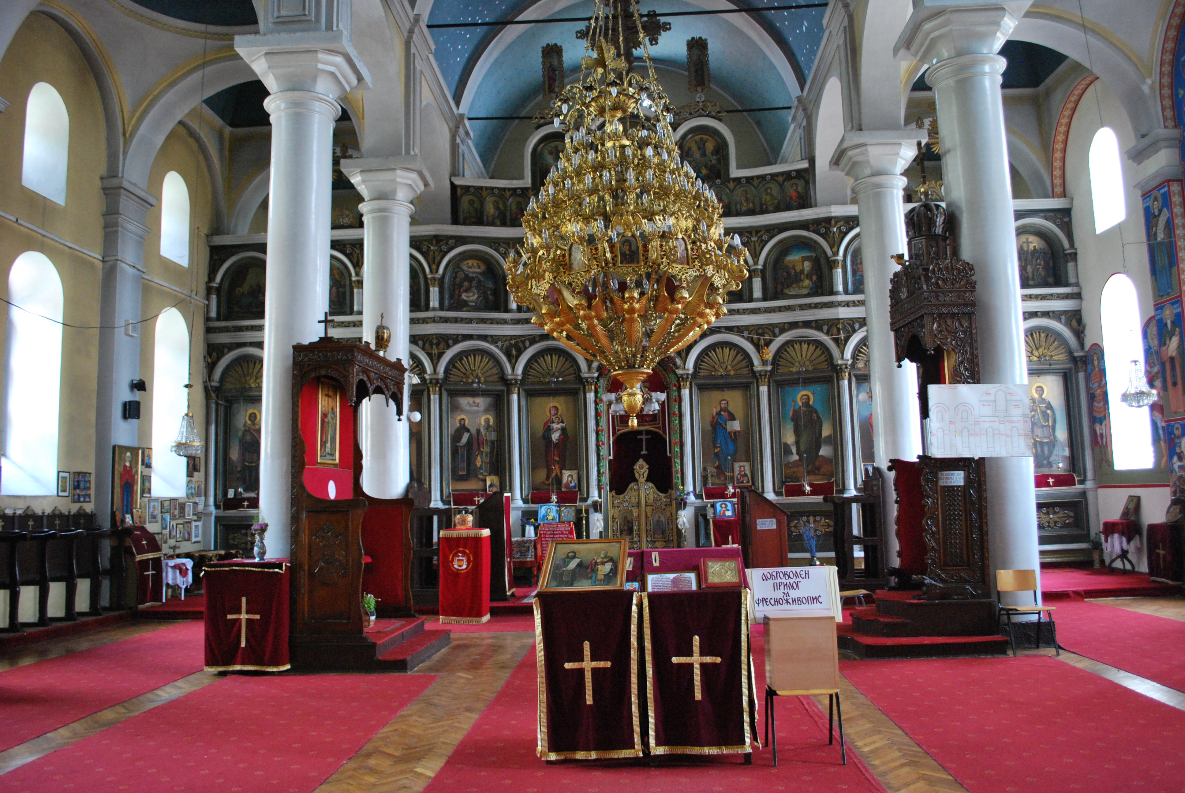 St. Cyril and methodius church in Tetovo, Macedonia